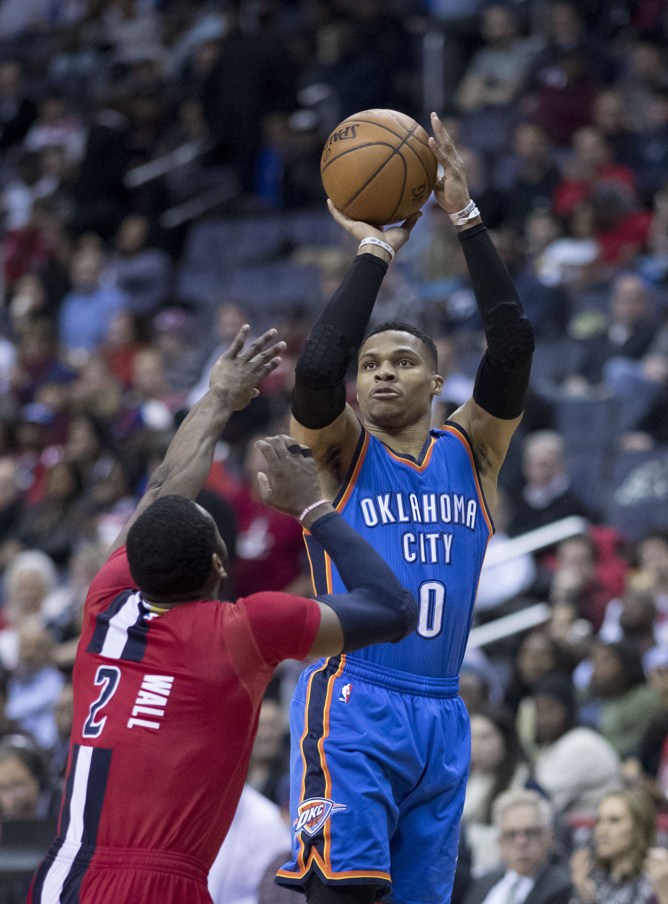 Thunder at Wizards 2/13/17